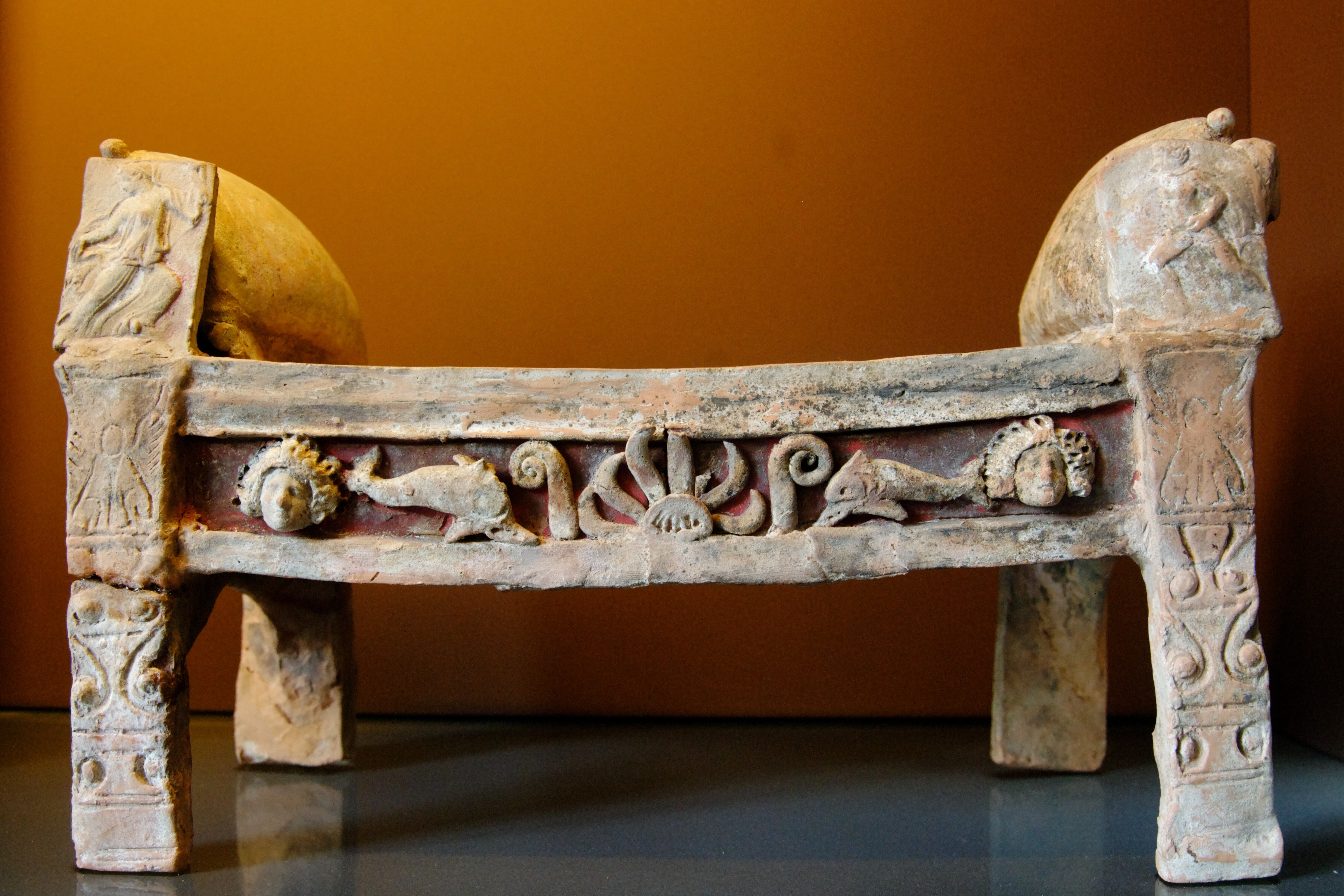 Votive bed. Terracotta figurine of Myrina, 350–300 BC. From Eretria.